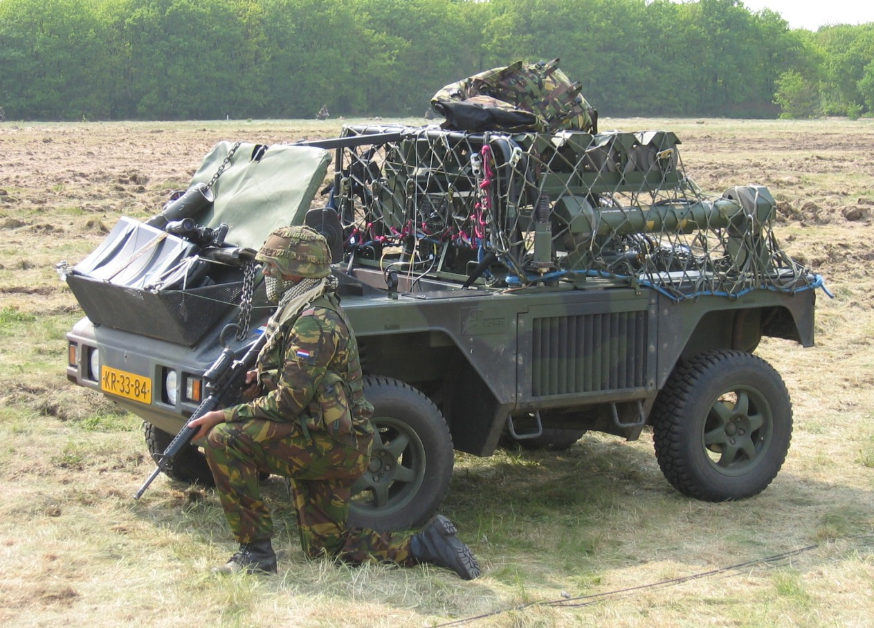 Light vehicle from the Luchtmobiele Brigade (Lohr VLA 4x4 made by SP Aerospace and Vehicle Systems)